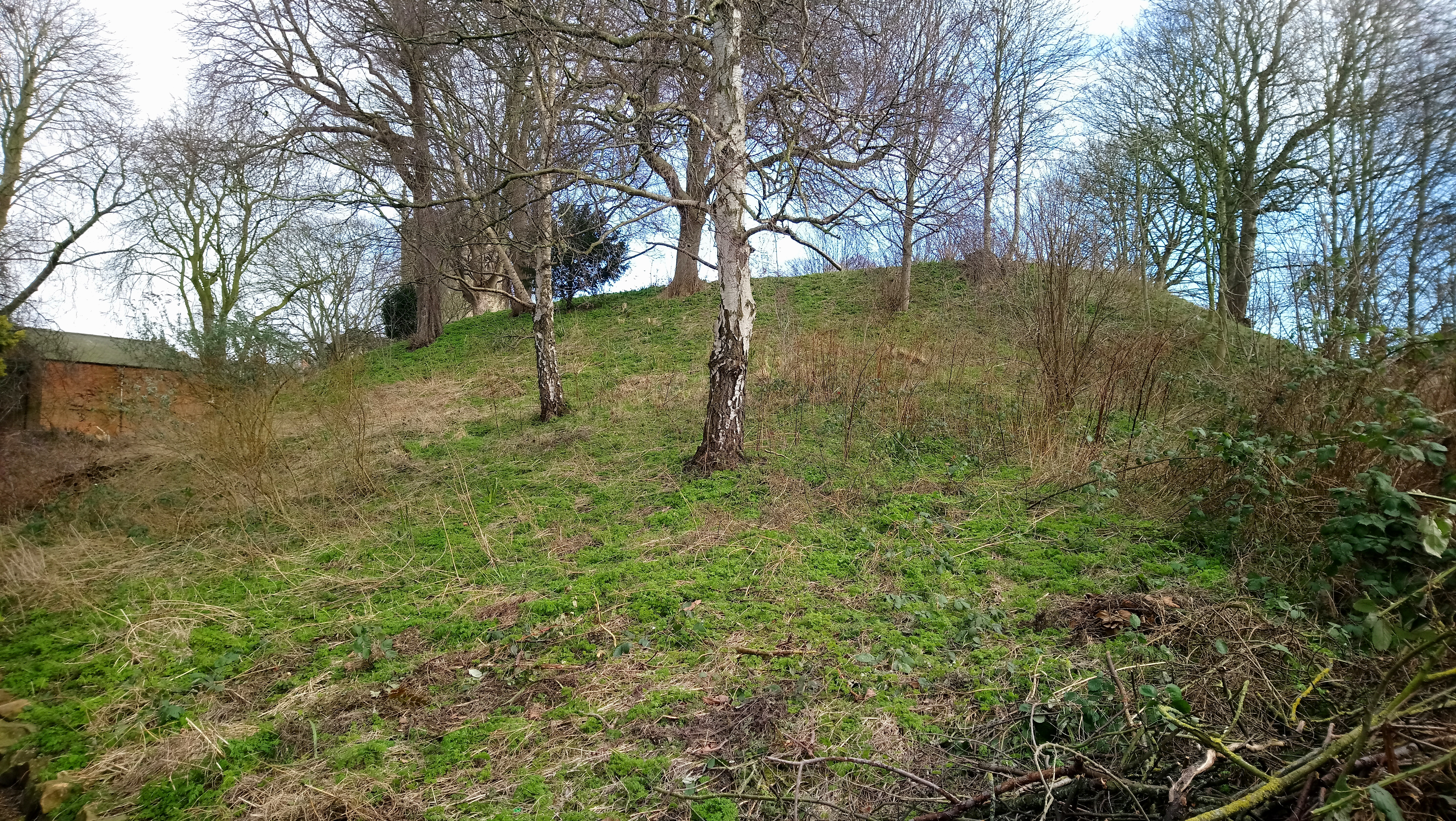 The motte at Leicester Castle Wikidata has entry Q17662148 with data related to this item.